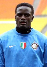 McDonald Mariga during training